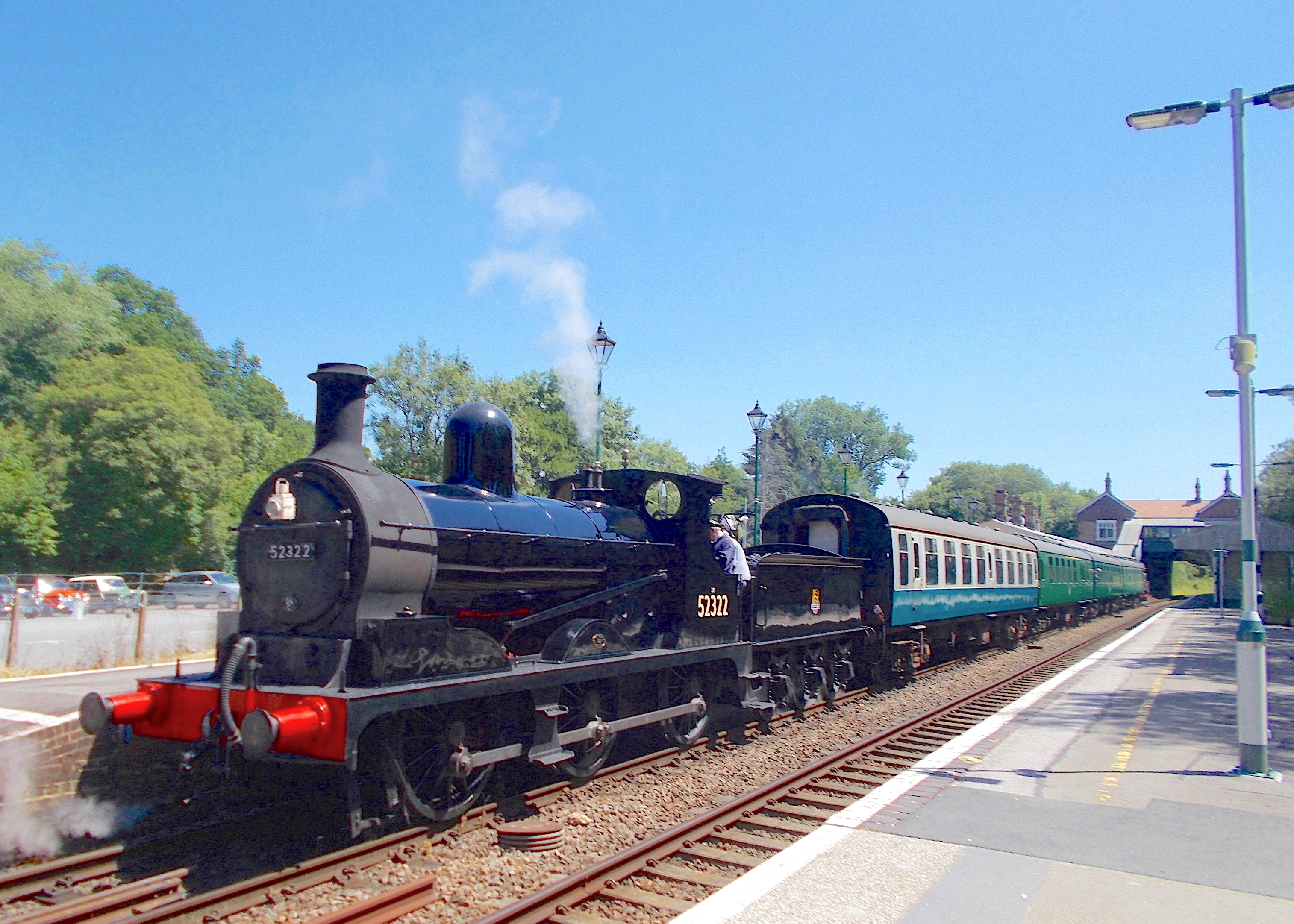 British Railways 0-6-0 Class A No. 52322 is seen at the head of a train at Eridge